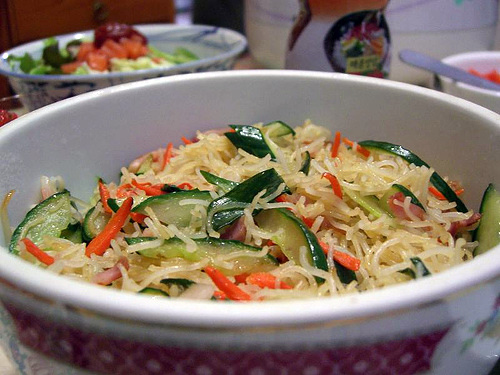 Cooked Rice vermicelliCooked Rice vermicelli